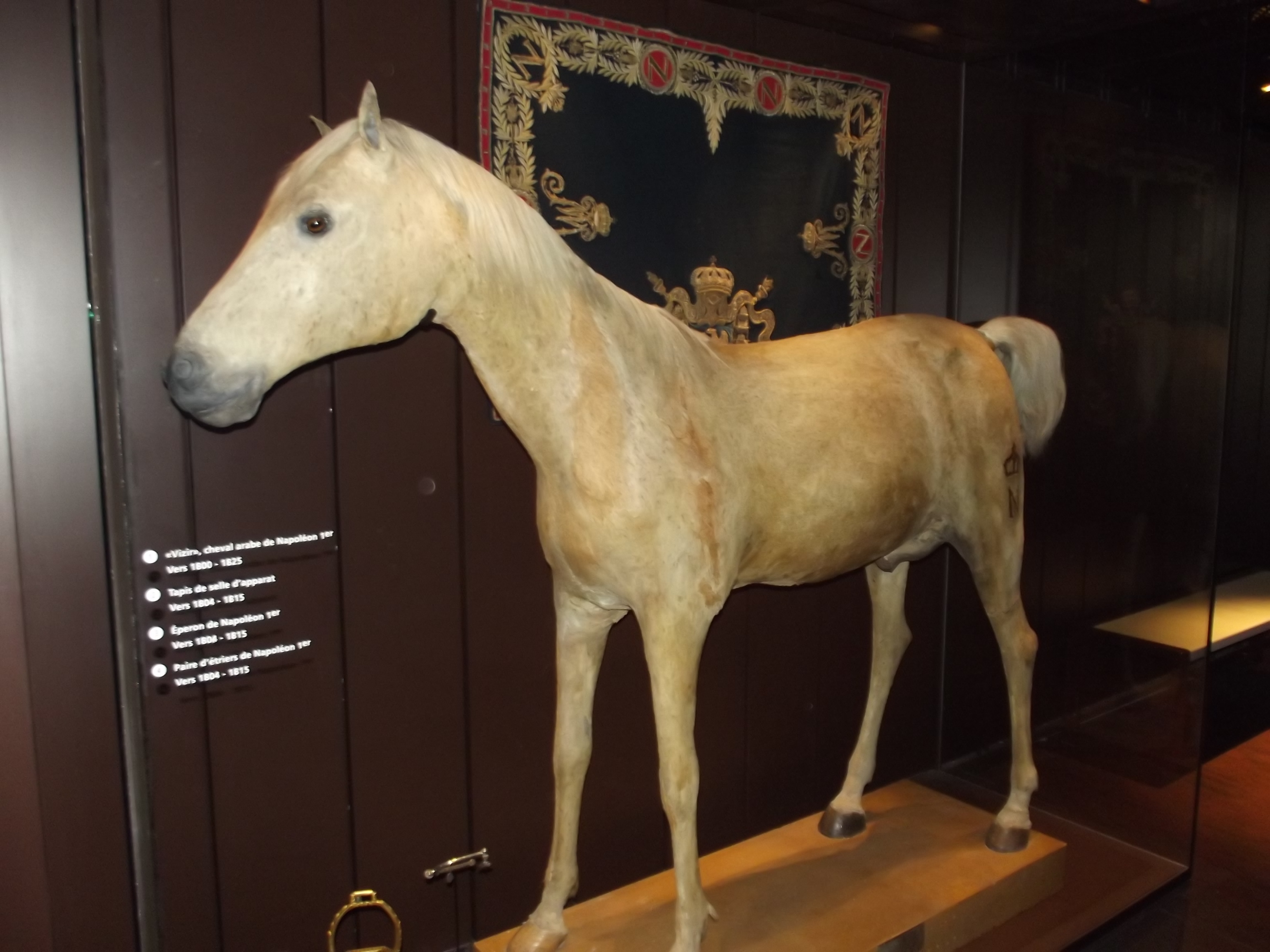 Napoleon 1's first horse, stuffed and on display at the Invalides, Paris, France